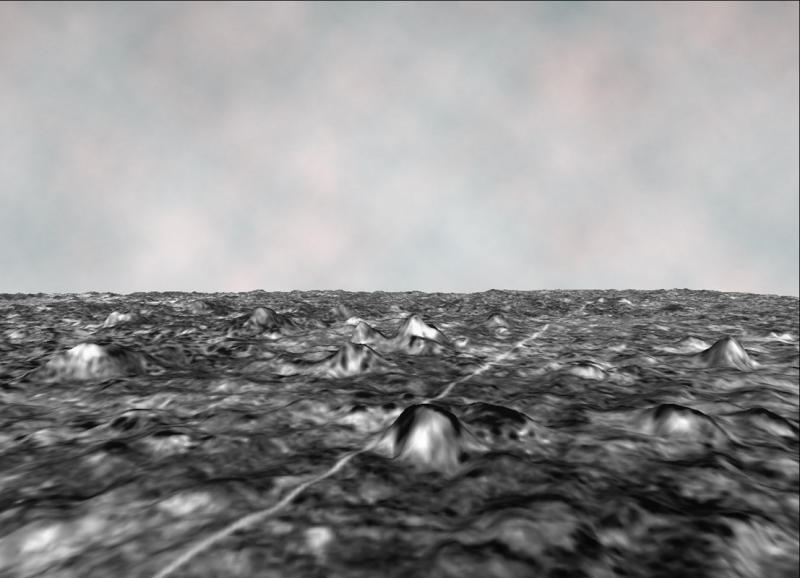 NASA Airsar Synthetic Aperture Radar (SAR) Digital Elevation Model (DEM) combined with aerial photography showing the pyramidal architecture of Chunchucmil, Yucatan.